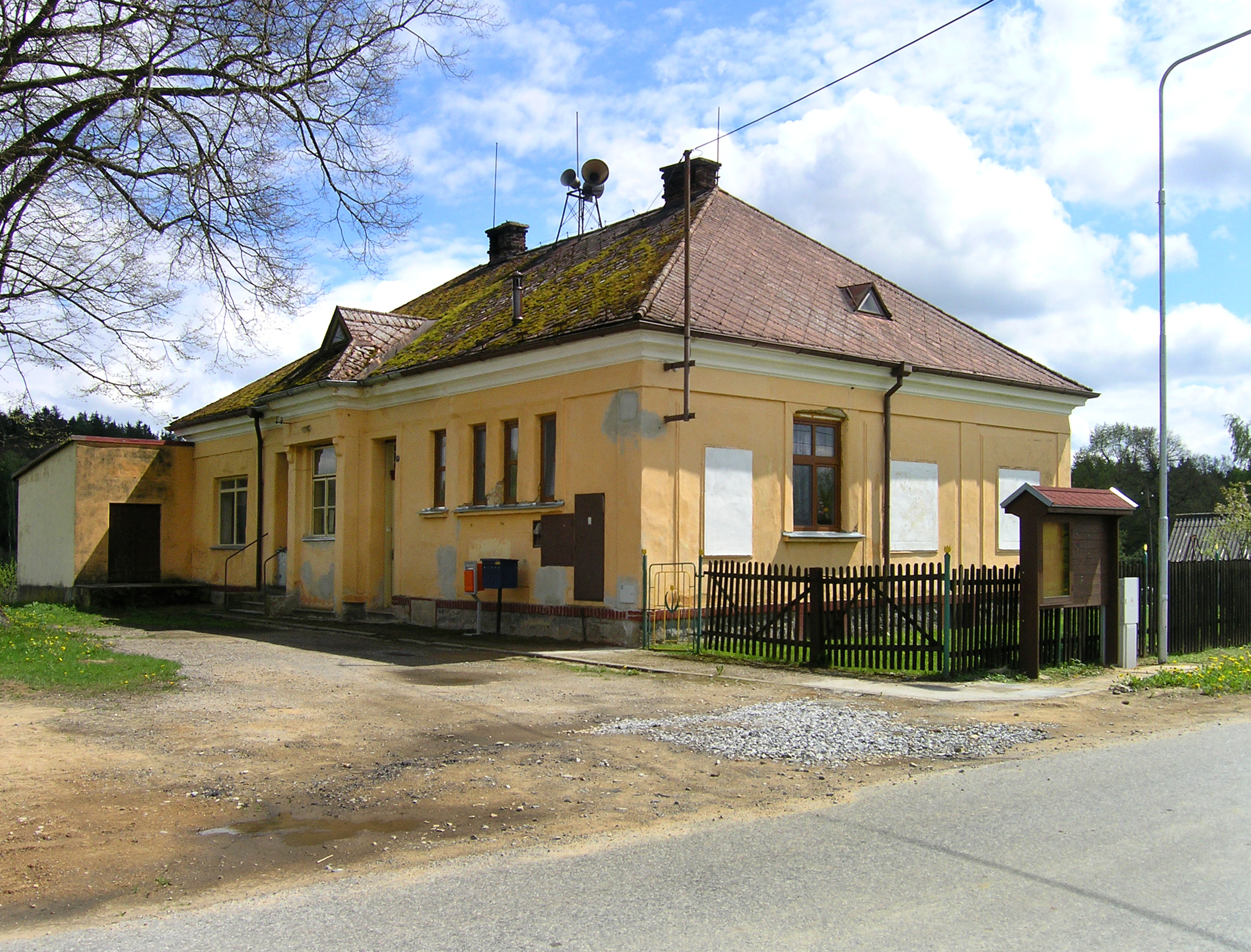 Old school in Lítkovice, part of Žirovnice, Czech Republic